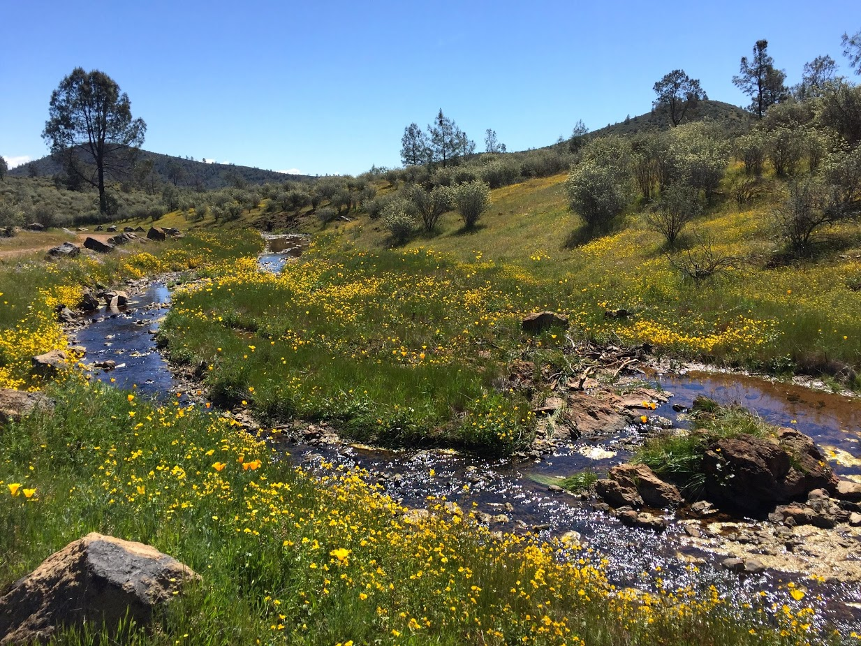 The Red Hills is a region of 7,100 acres of public land located near the intersection of State Highways 49 and 120, just south of the historic town of Chinese Camp in Tuolumne County. The Red Hills are noticeably different from the surrounding countryside. The serpentine-based soils in the area support a unique assemblage of plant species. Included among the thorny buckbrush and foothill pine is a rich variety of annual wildflowers, which put on a showy display every spring. In the Red Hills buckbrush and other shrubs provide browse and seeds for small populations of mammals, including mule deer, jackrabbits and rodents. Coyotes, bobcats and fox can also be found in the Red Hills. Approximately 88 bird species have been observed in the Red Hills. Some common species include mourning dove, acorn woodpecker, ash-throated flycatcher, scrub jay, wrentit, plain titmouse, bushtit, Bewick's wren and house finch. Valley quail and mourning doves are the major game birds in the Red Hills. An abundant insect population supports insectivorous birds including western kingbirds, ash- throated flycatcher, tree swallows, barn swallows, black phoebes and others. Raptors include the red-tailed hawk, Cooper's hawk, prairie falcon and great horned owl. Fish-eating birds seen in the Red Hills include the belted kingfisher and great blue heron. Roadrunners can also be found. Four sensitive species of animals are known from the Red Hills. Wintering bald eagles roost along the shores of Don Pedro Reservoir and have been observed where Six Bit Gulch enters the lake. As many as 20 bald eagles have been sighted during the winter on the shores of Don Pedro Reservoir, roosting in stands of foothill pines. Photo by Patrick Congdon, BLM volunteer.